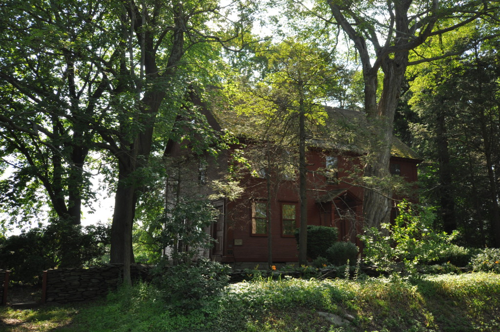 Warner House, East Haddam, Connecticut.